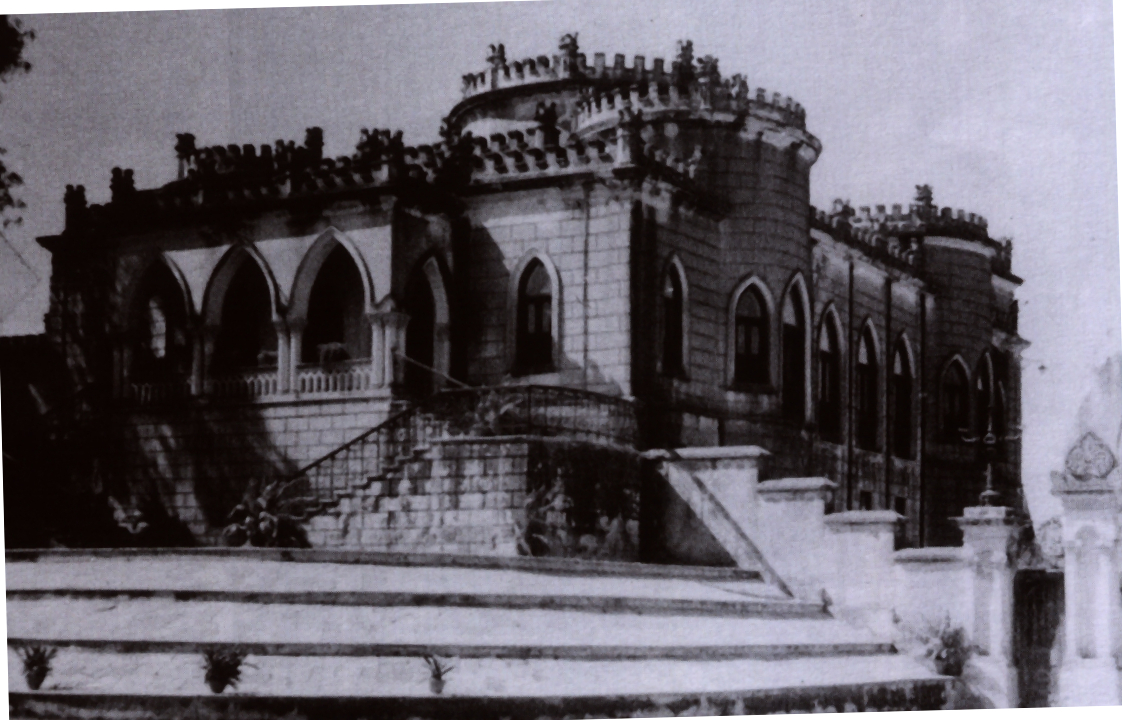 Asman Ghar Palace, Hyderabad (Deccan) built for Asman Jah